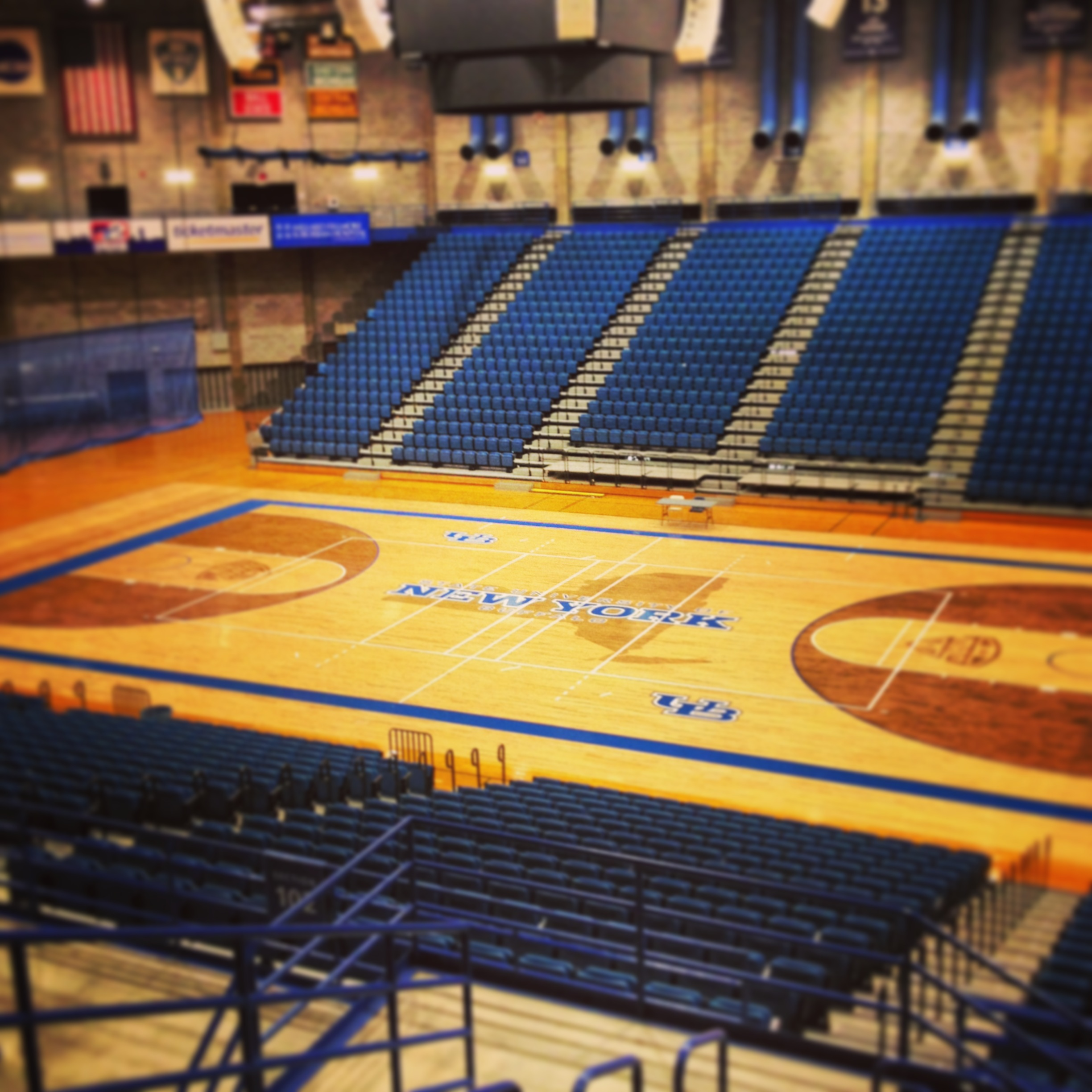 UB's Alumni Arena featuring the new athletics logo on the court